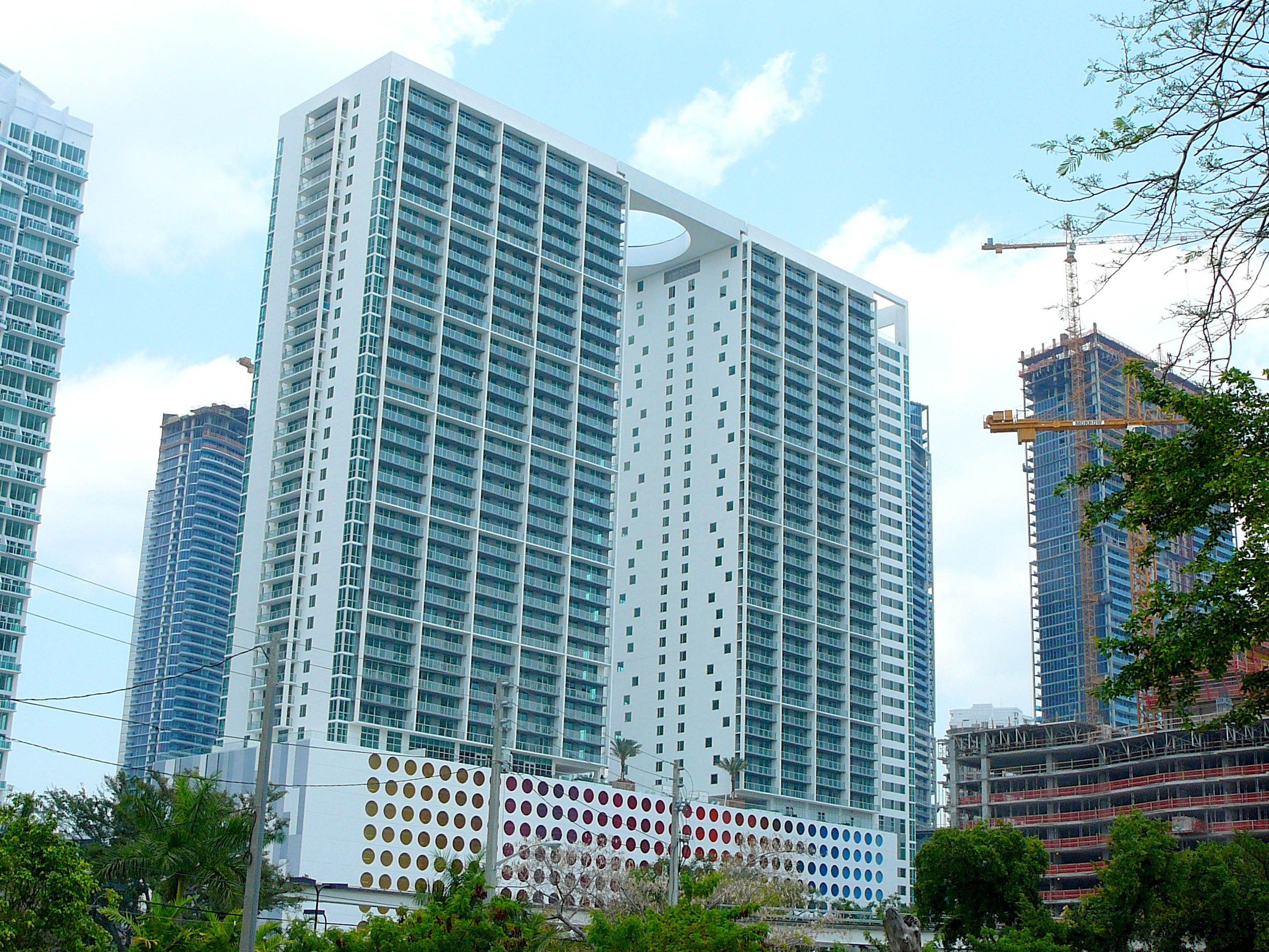 Digital photo taken by Marc Averette. The topped-out en:500 Brickell tower in downtown Miami, southwest view 5/14/2008